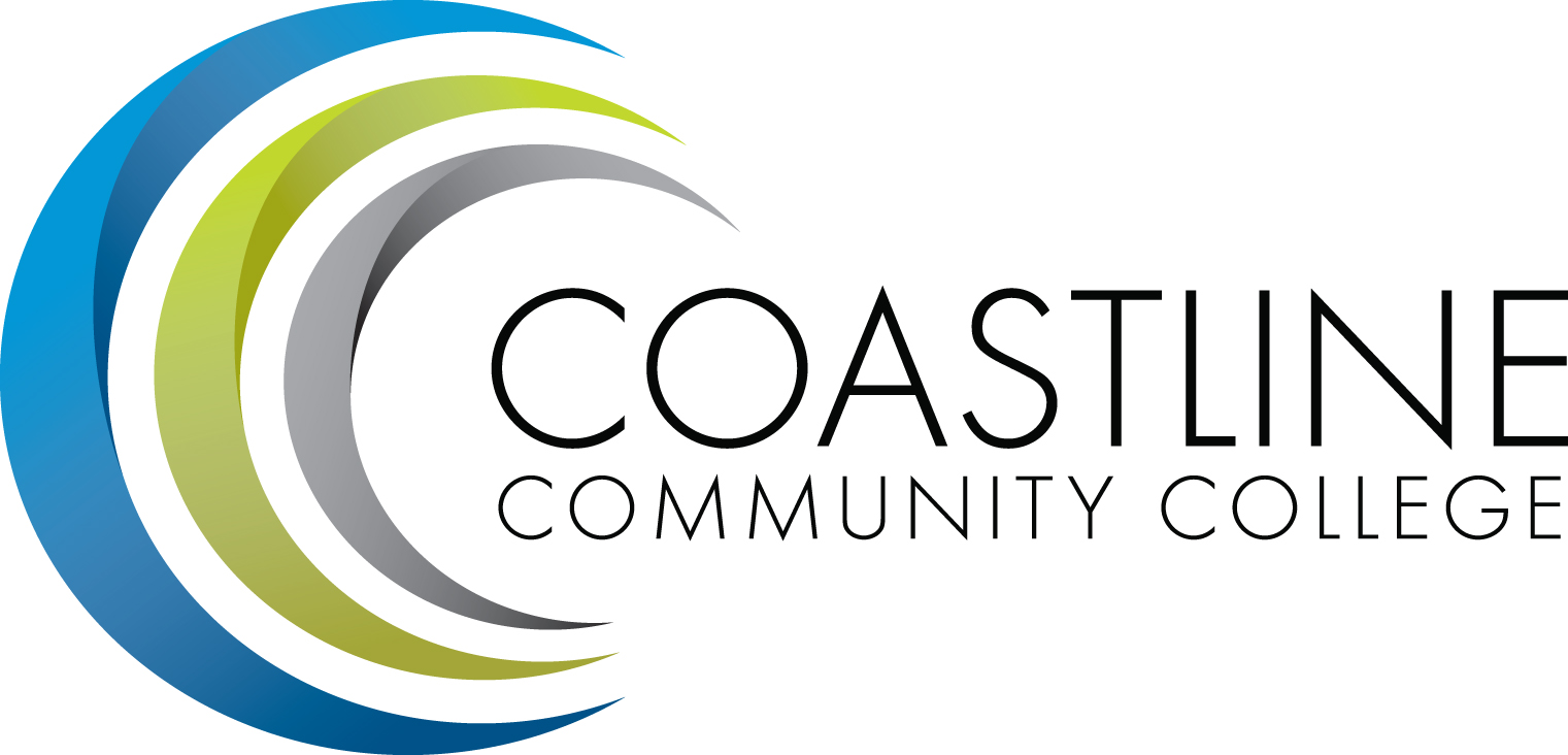 Official logo for Coastline Community College in Fountain Valley, California. Used from 2009 to present